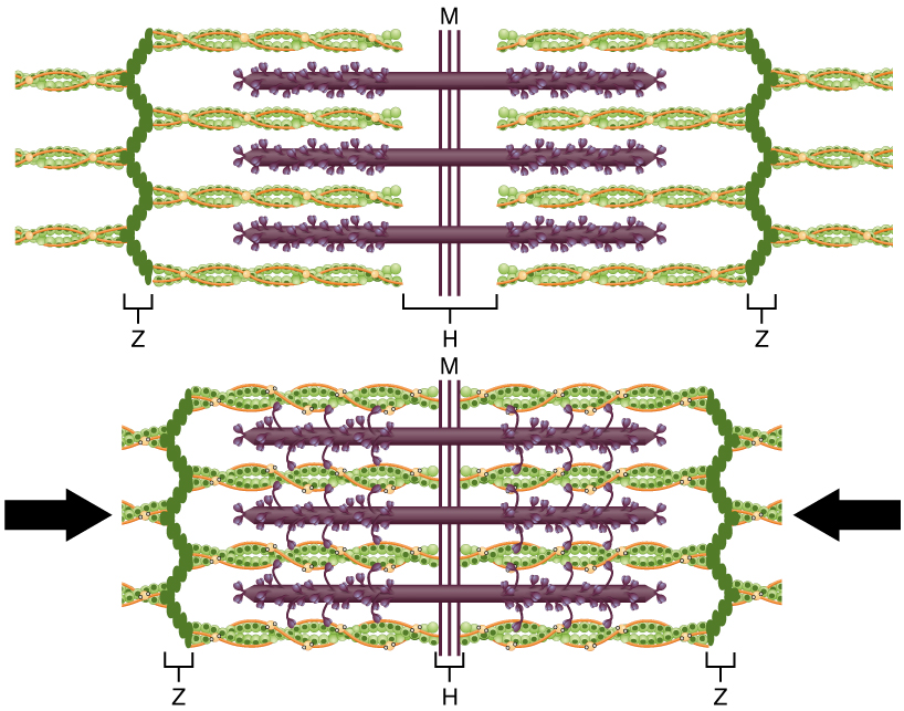 Version 8.25 from the Textbook OpenStax Anatomy and Physiology Published May 18, 2016